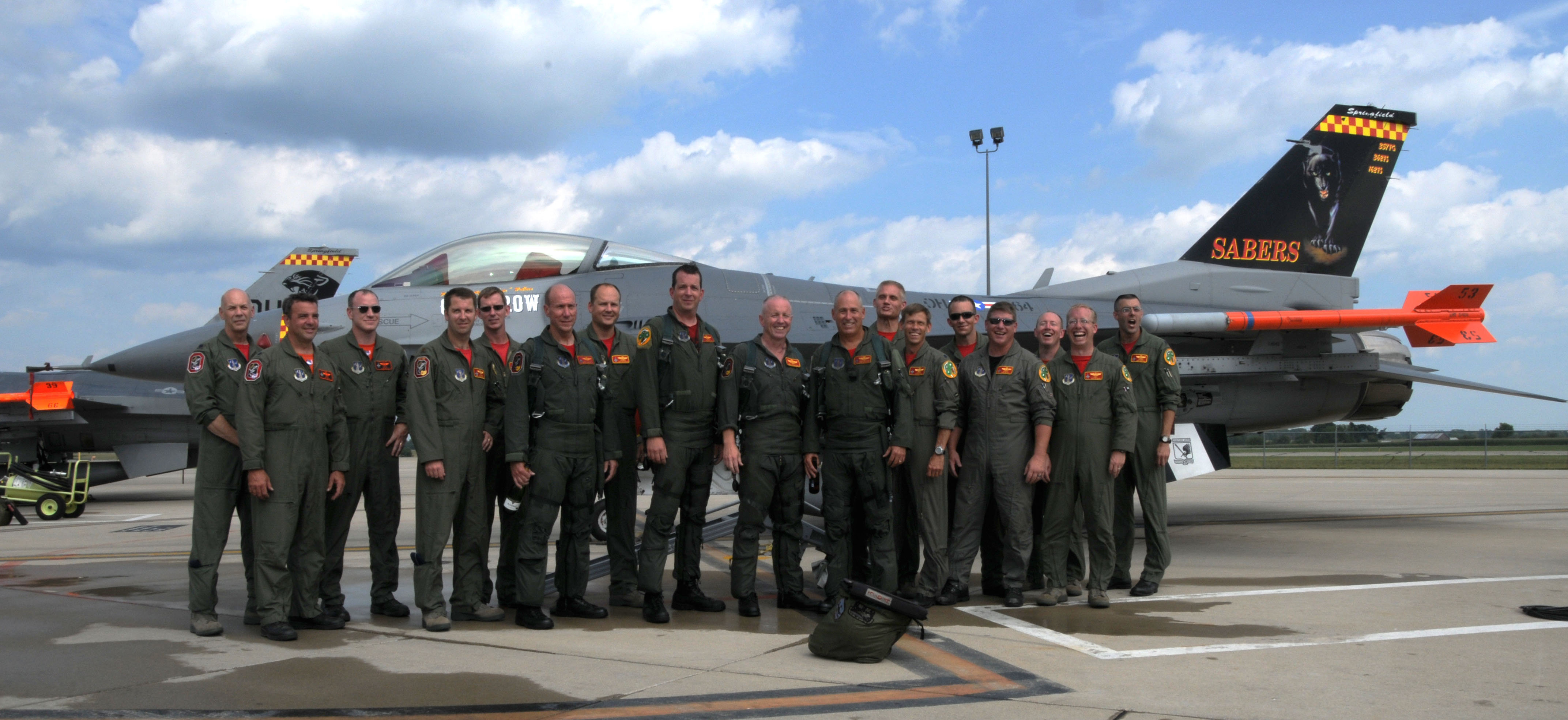 Pilots from the 178th Fighter Wing gather in front of an F-16 July 30 in Springfield, Ohio. It is the last time these pilots would fly together here at Springfield. (U.S. Air Force photo by SrA Anthony T. Graham)